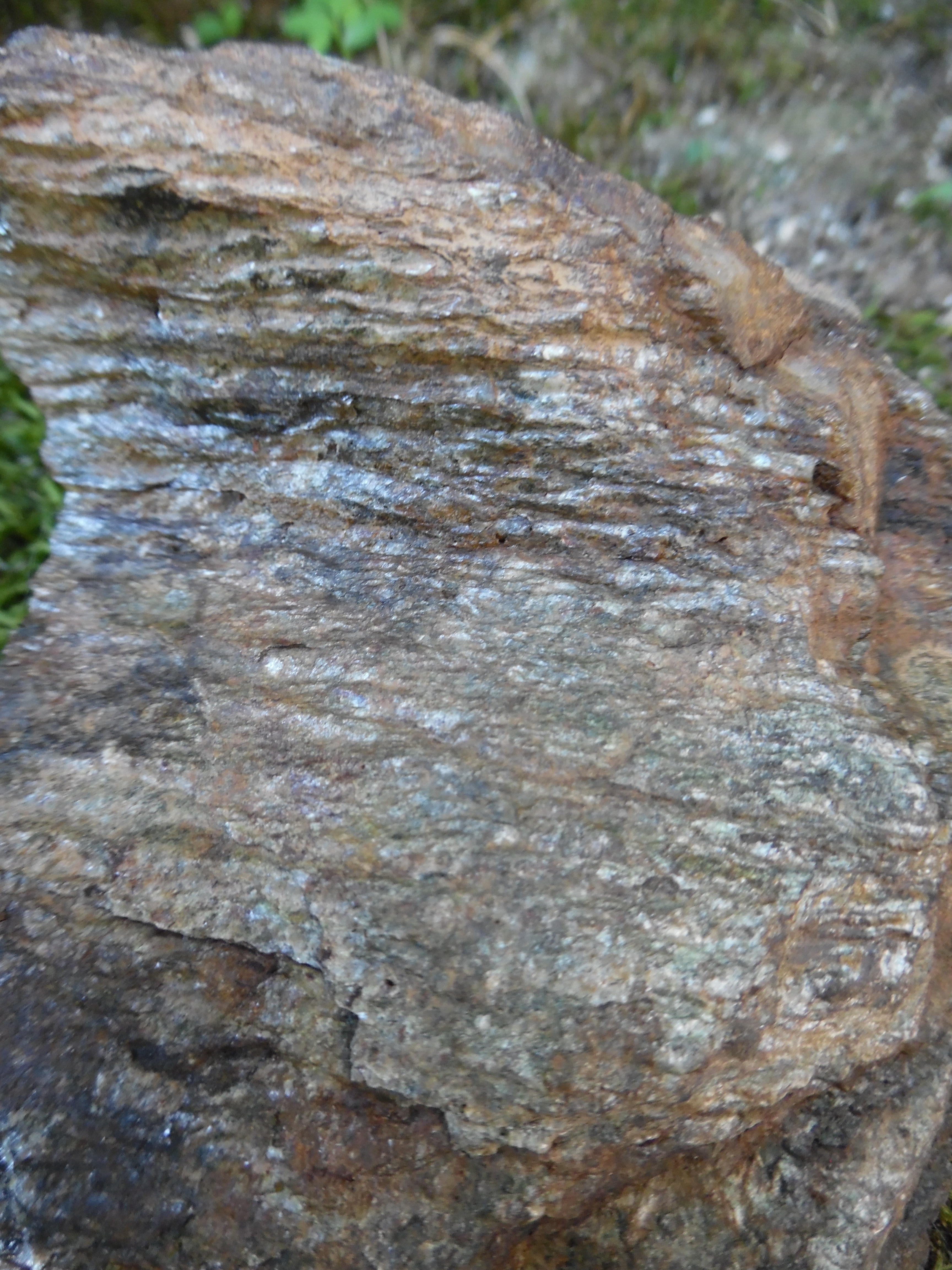 Crenulated micaschist from the Parautochthonous Micaschist Unit - Saint-Pardoux, Dordogne, France